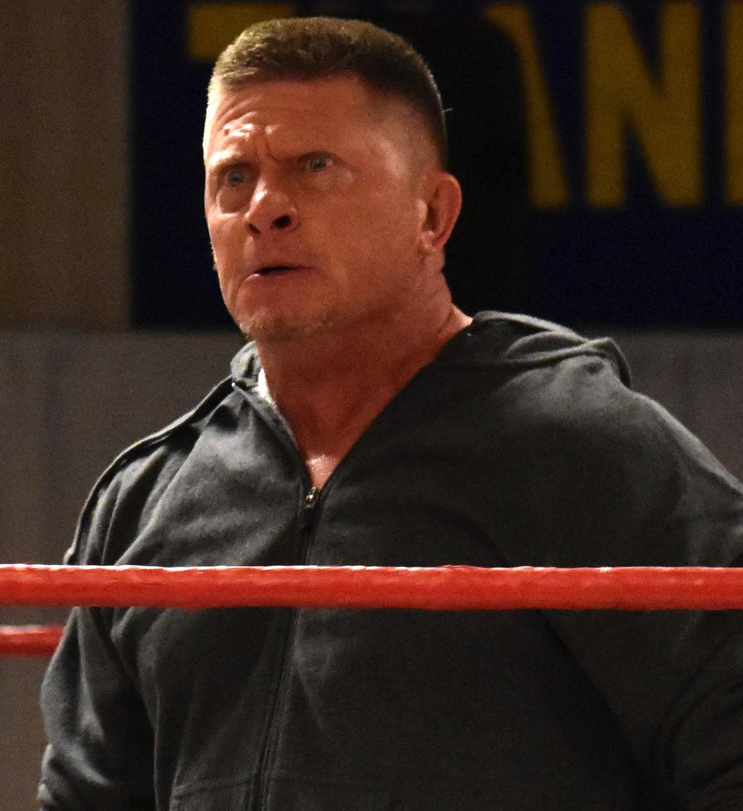 Ace Steel appearing at MKE Wrestling's “The Last Knight” pro-wrestling event in West Allis, Wisconsin on April 19, 2019.